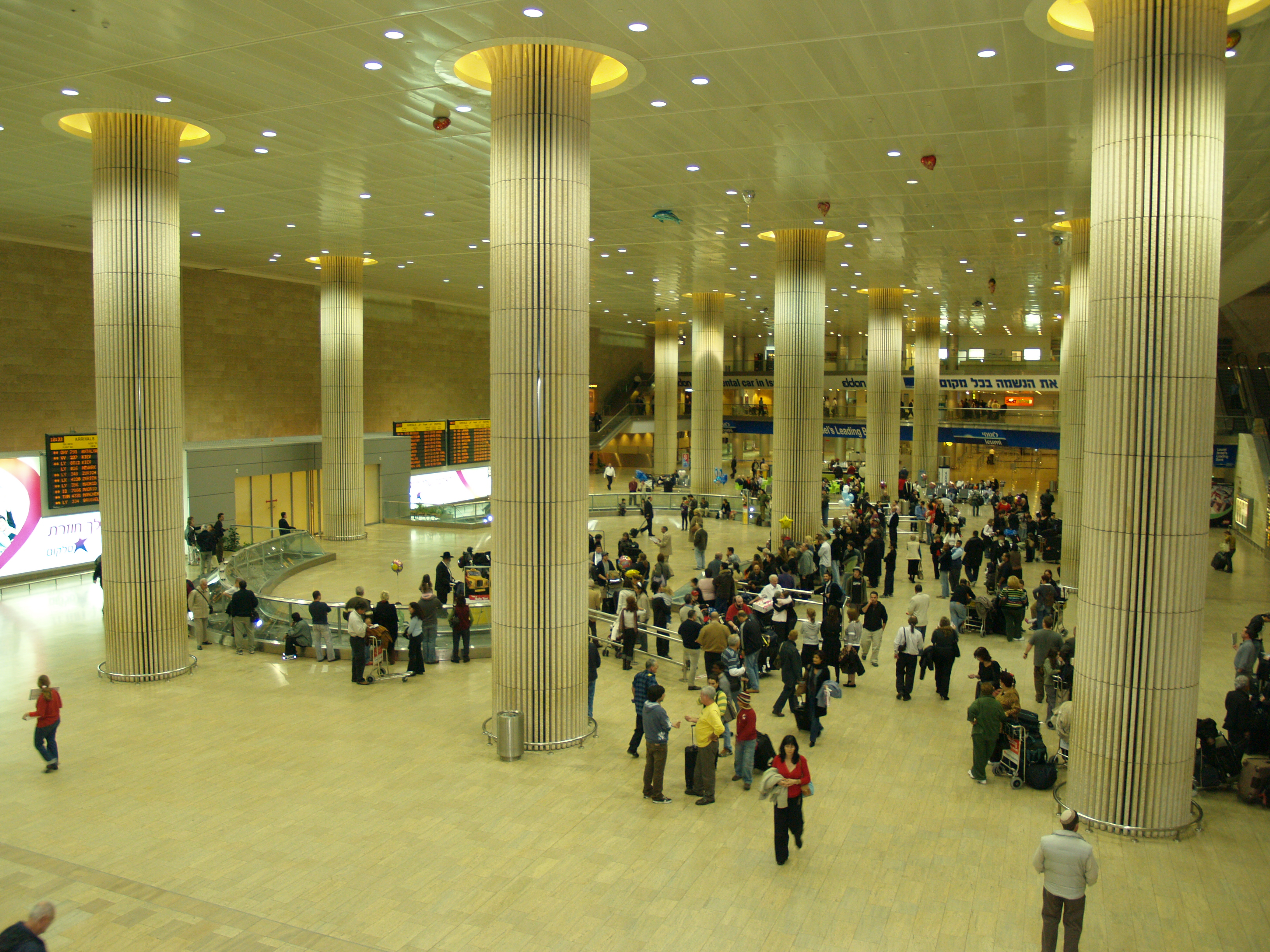 People waiting outside customs at Ben-Gurion Tel Aviv airport